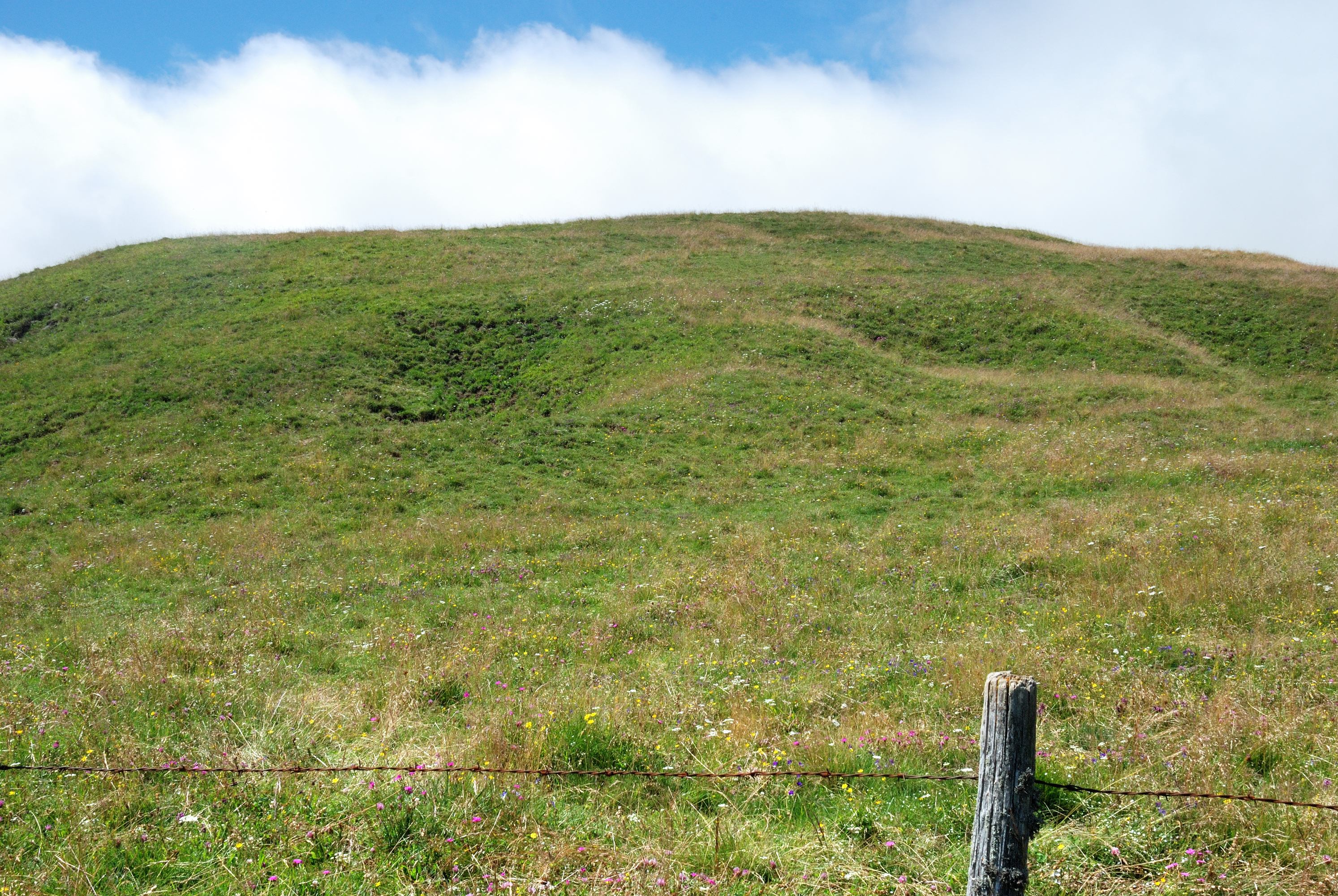 Tras: Remains of ancient summer dwellings in the Cézallier region prior to the building of stone burons. (Puy-de-Dôme, France. Translations in other languages are welcome.